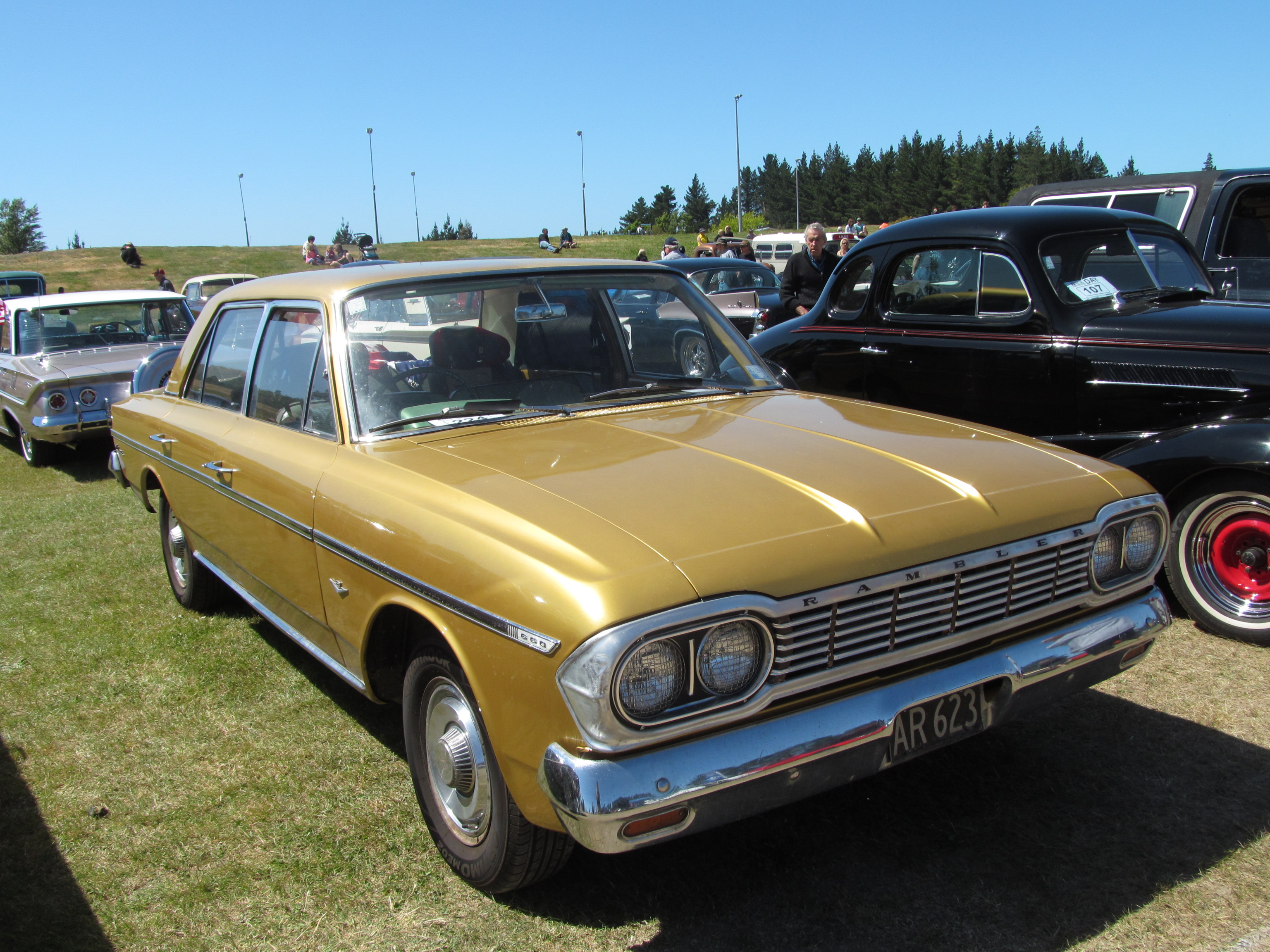 What a stunner. A totally original, NZ sold RHD Rambler in a fabulous colour. In fact, this will even be an NZ assembled car, by Campbell Industries in Thames. This is the sort of American car I like.